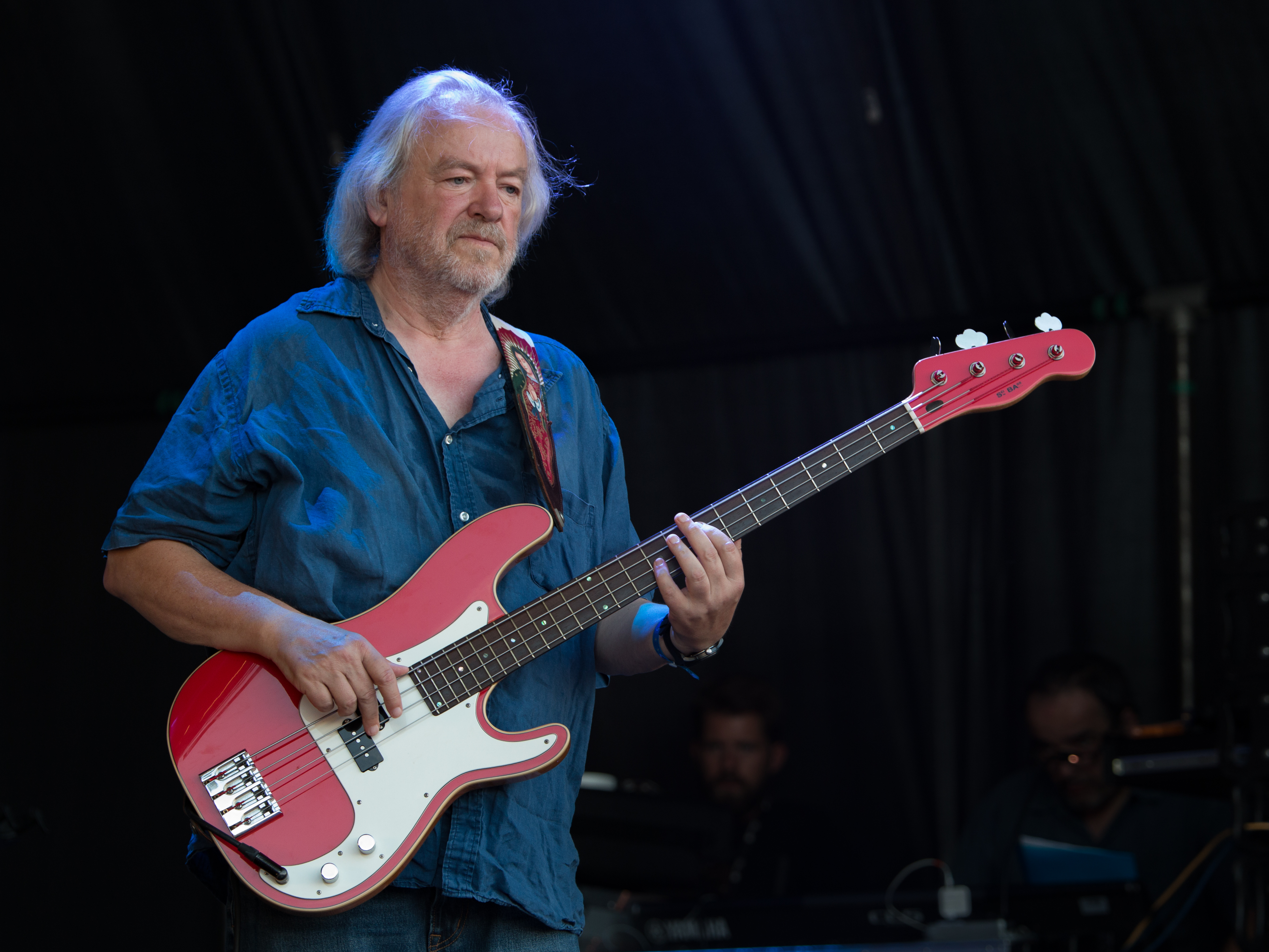 David Young, Element of Crime, Folklore 015 festival at the Schlachthof in Wiesbaden